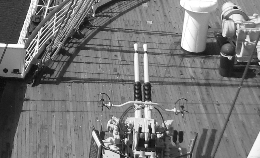 aboard the RMS Queen Mary, view to the prow. Weapons added during WWII.